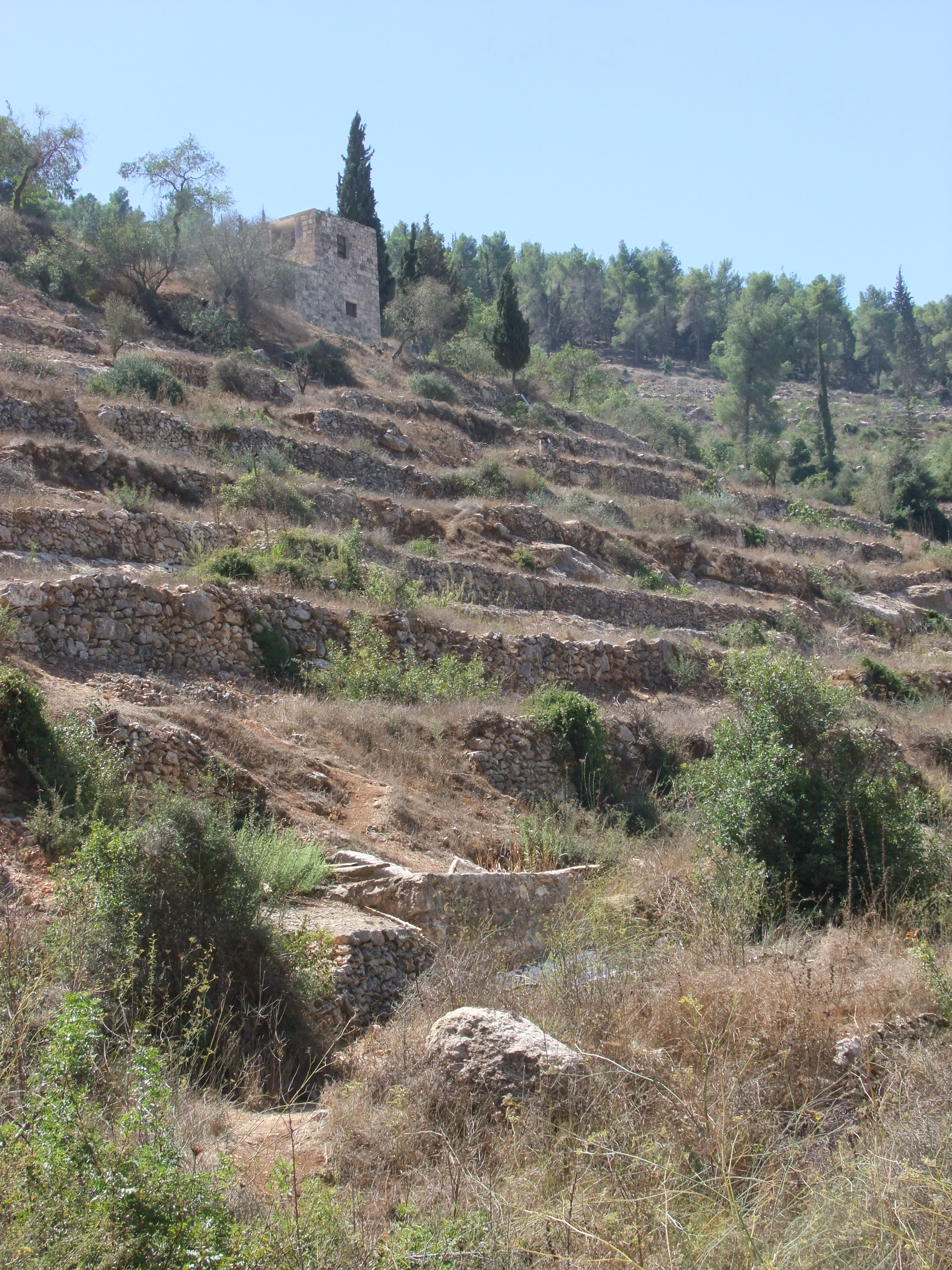 Ancient terraces, Revida valley in Jerusalem forest, Jerusalem, Israel